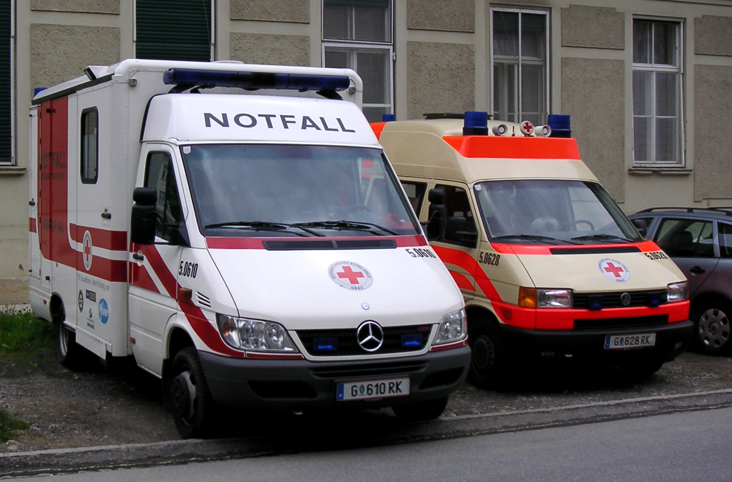 Red Cross Ambulances in Graz, Austria. Left one is a MICU-type (Mobile Intensive Care Unit), right one is an emergency ambulance. Side view. (The word "NOTFALL" means "EMERGENCY".)